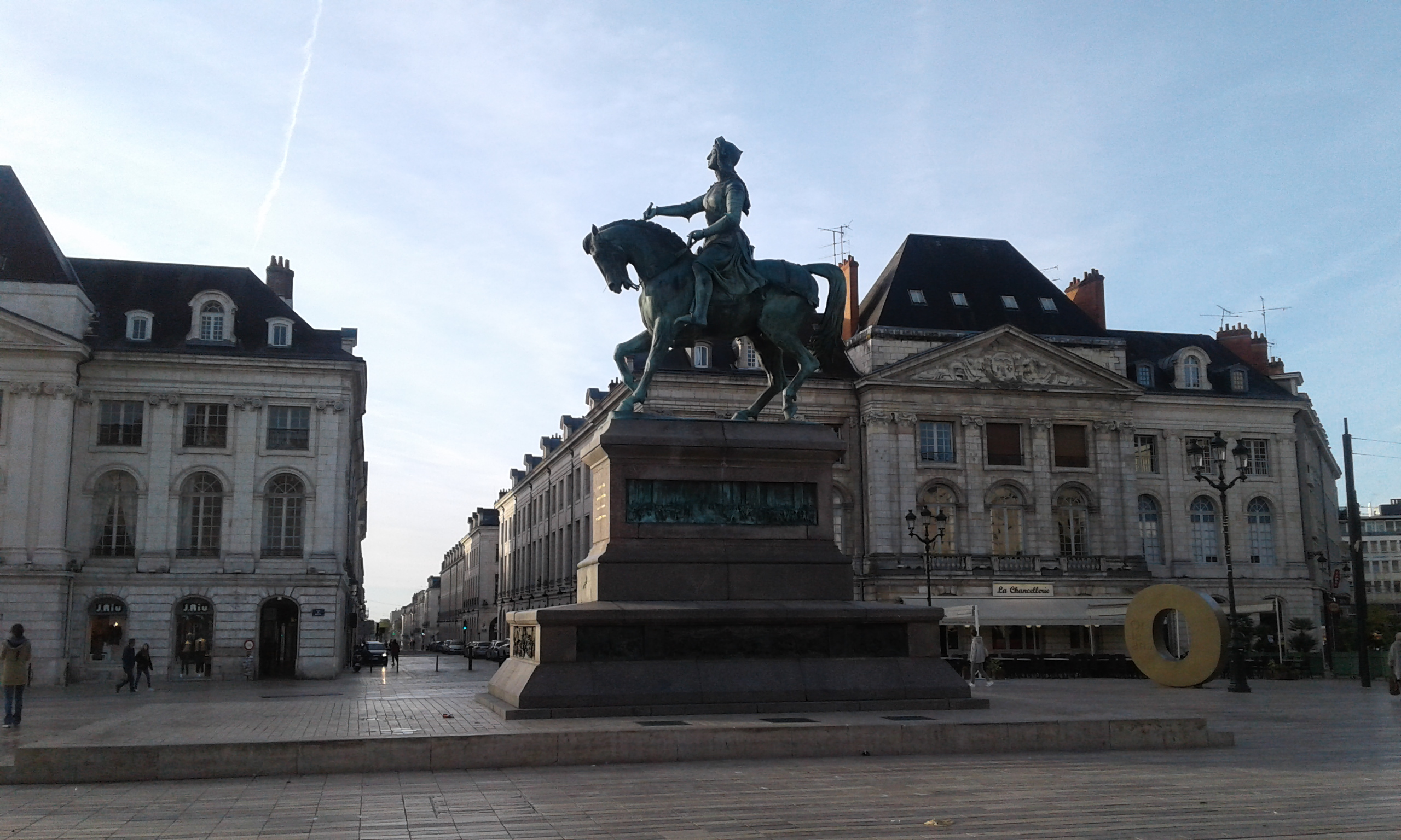 Place du Martroi - Orléans (South view)